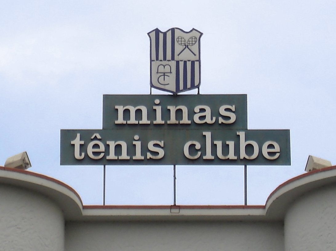 Minas Tênis Clube crest, siting on the top of the club headquaters building